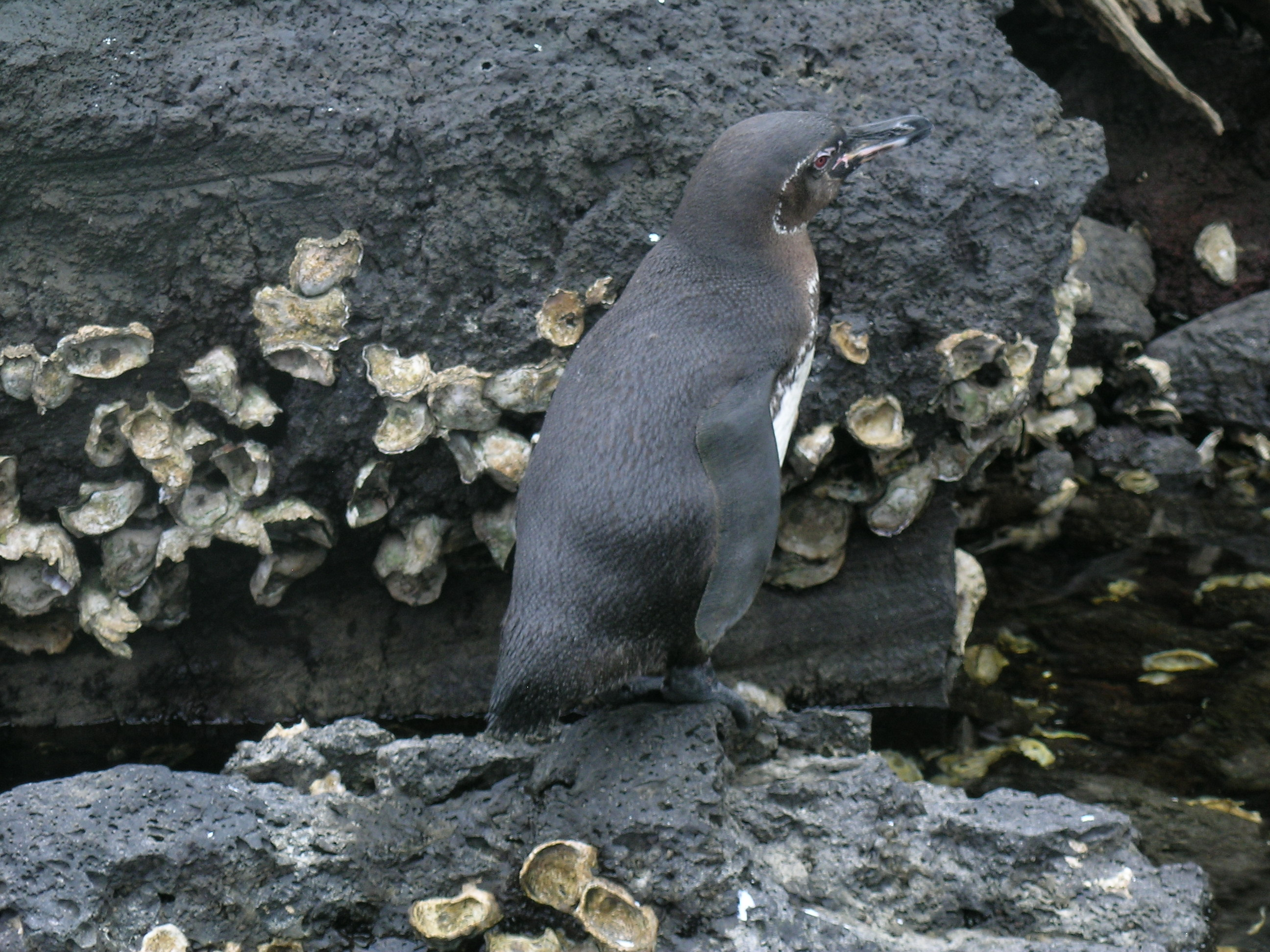 Galapagos penguin (Spheniscus mendiculus) in the Elisabeth Bay mangrove area, Isabela Island